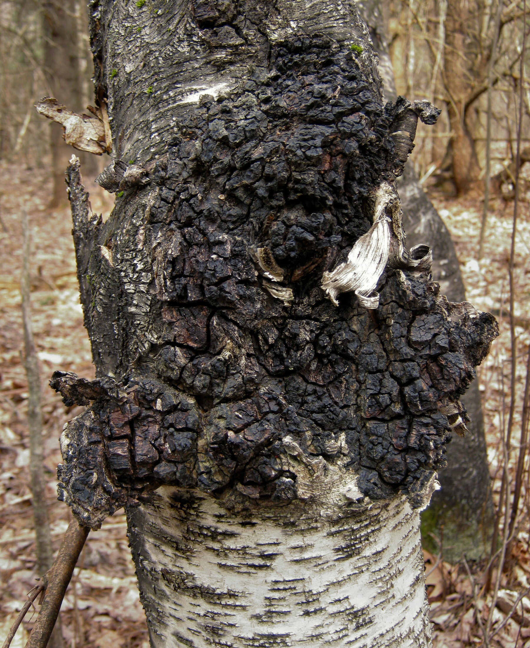 Inonotus obliquus (Ach. ex Pers.) Pilát Location: Maine, USA For more information about this, see the observation page at Mushroom Observer.